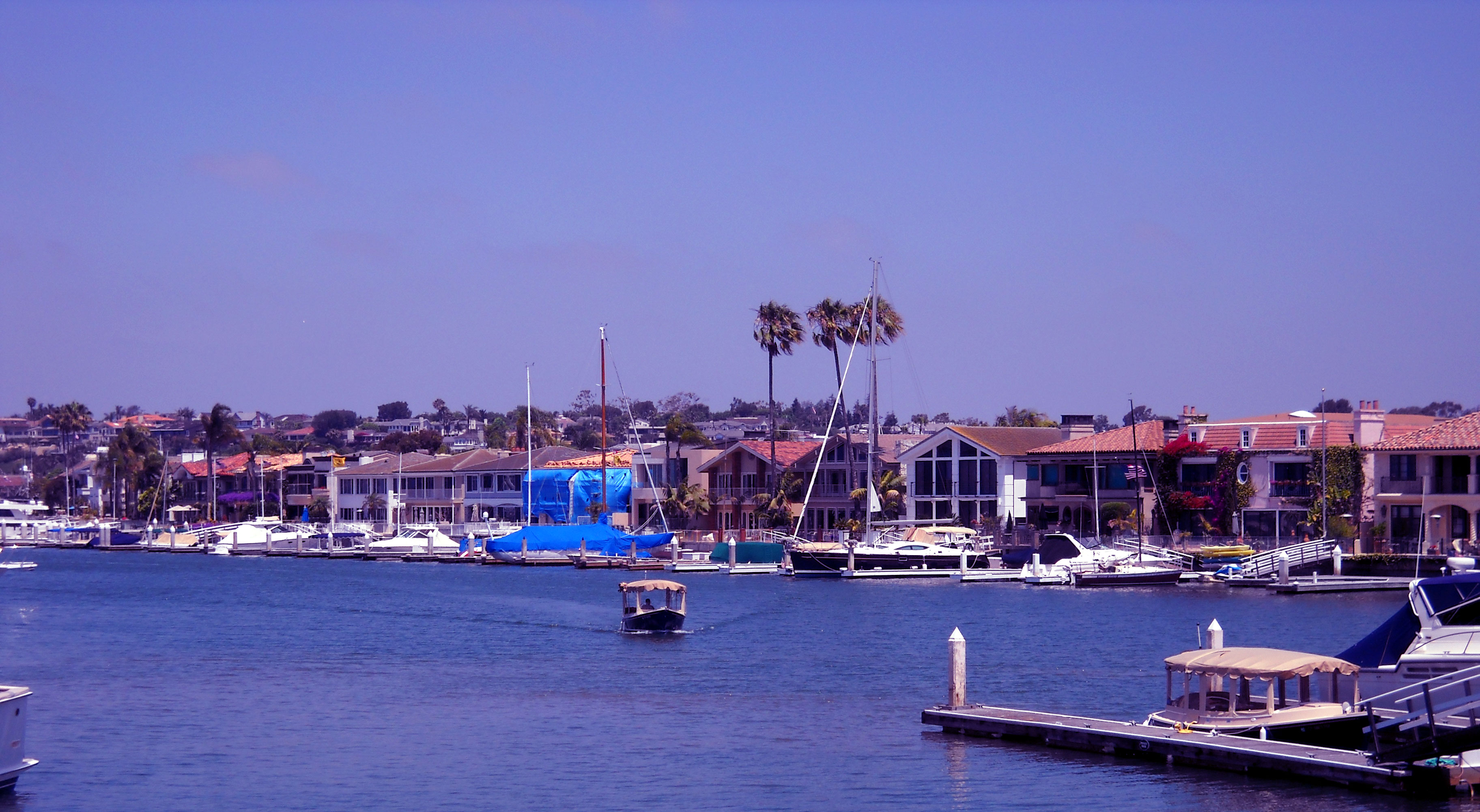 Linda_Island_NB_CA_Photo_D_Ramey_Logan please credit photographer if used outside of Wiki